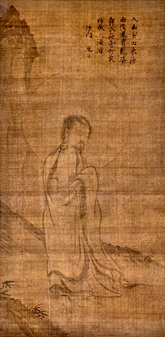 Shaka Coming Forth from the Mountains, Chorakuji, Gunma Prefectural Museum of History, Takasagi, Gunma, Japan